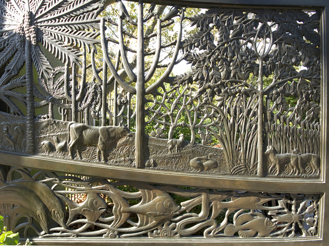 The gate of the Queens Zoo. Fragment.